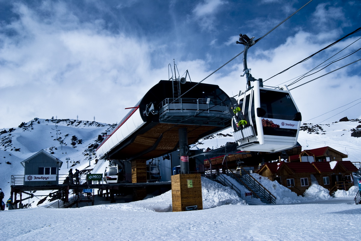 Elbrus. Ropeway. May 2016.